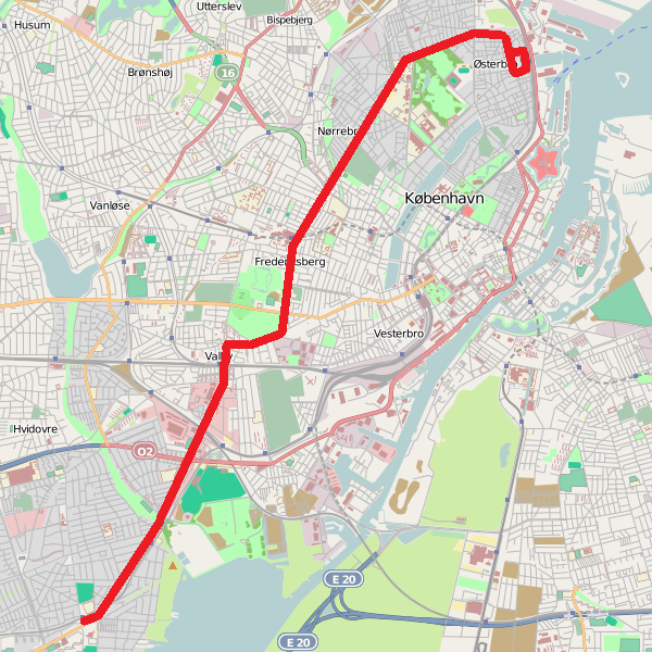 Map of Copenhagen bus line 8A between Friheden Station and Nordhavn Station as of october 2015.